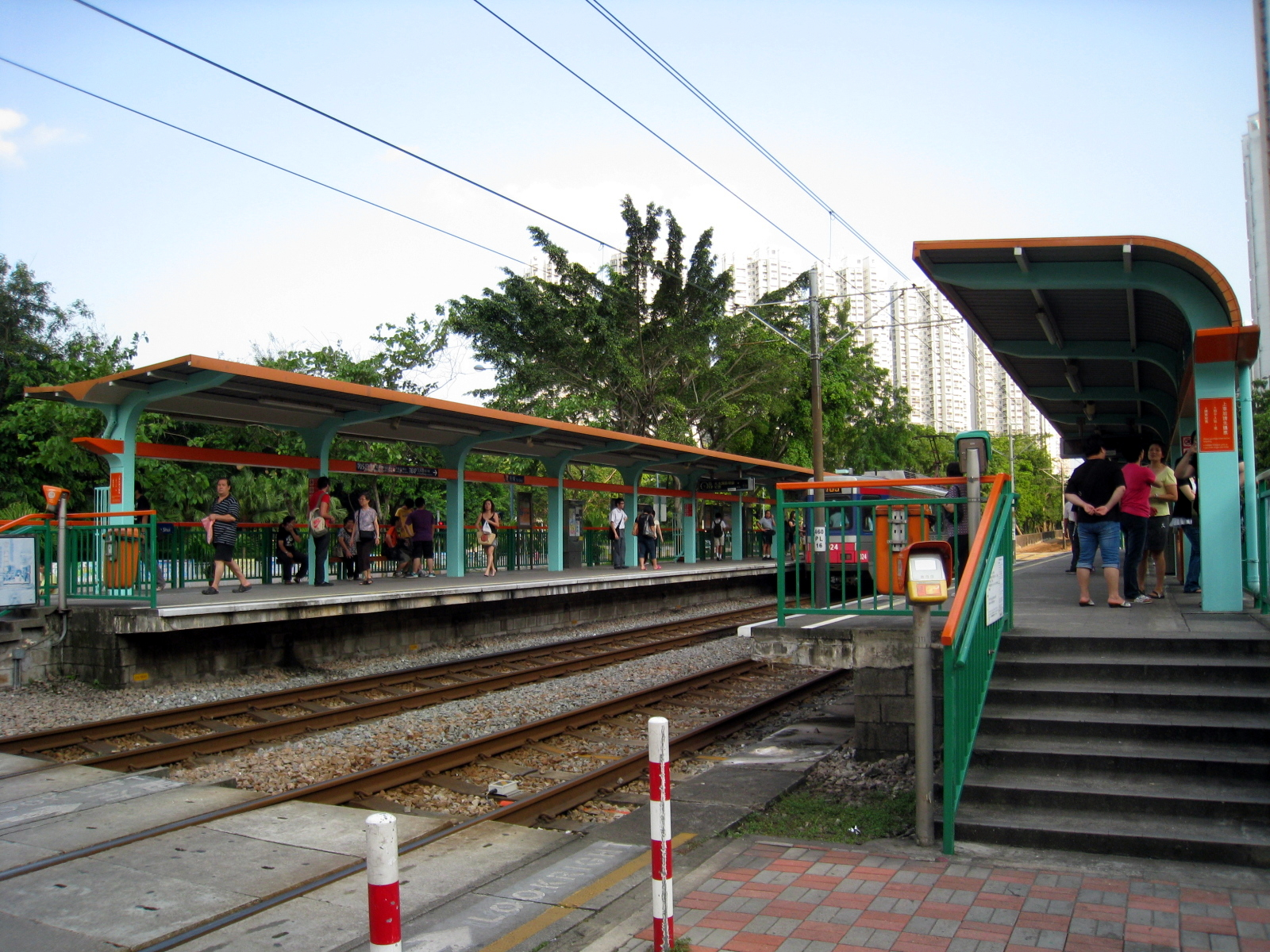 Tin Shui Station